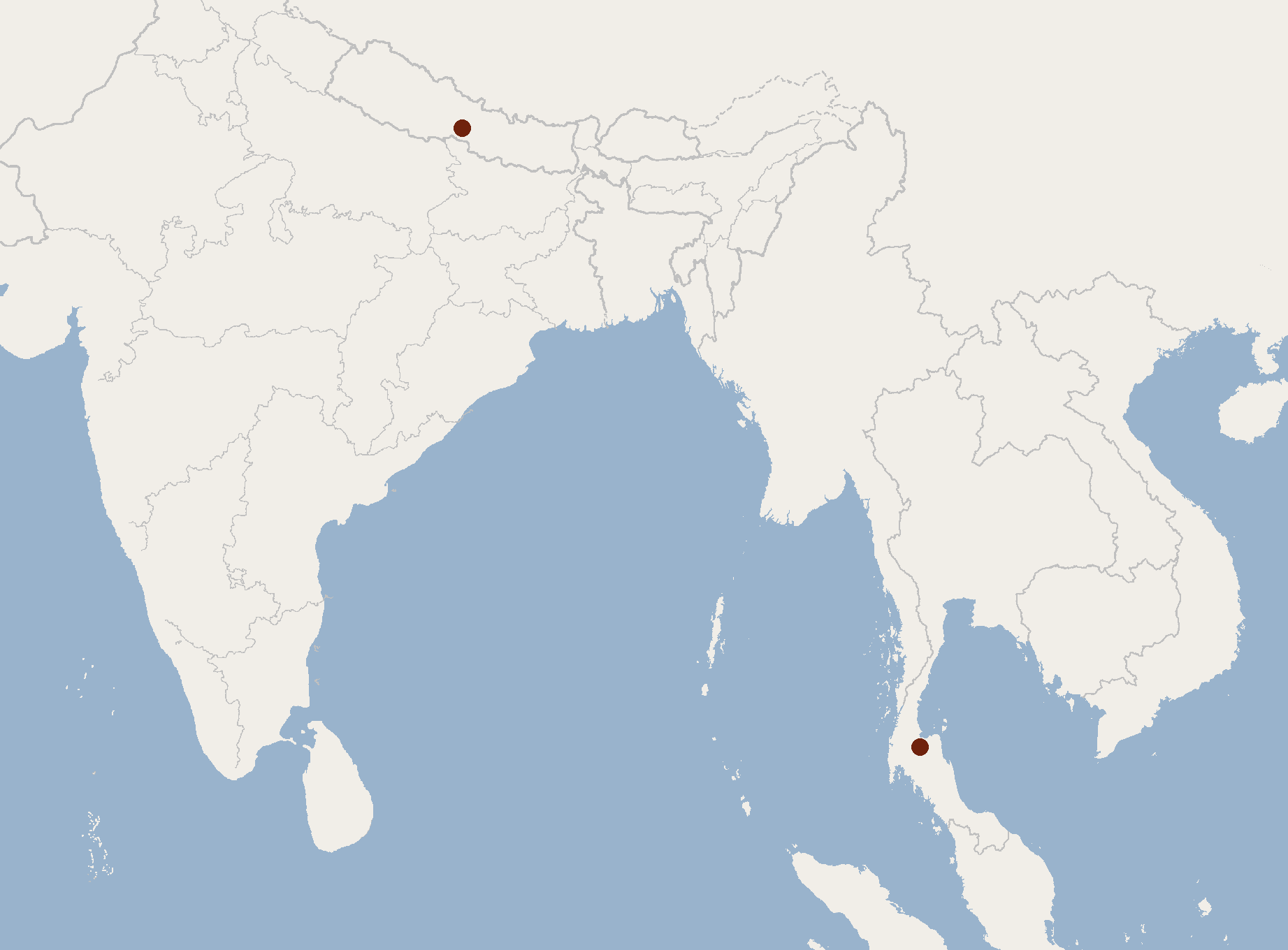 Geographical distribution of Eptesicus dimissus according to Museum specimens.